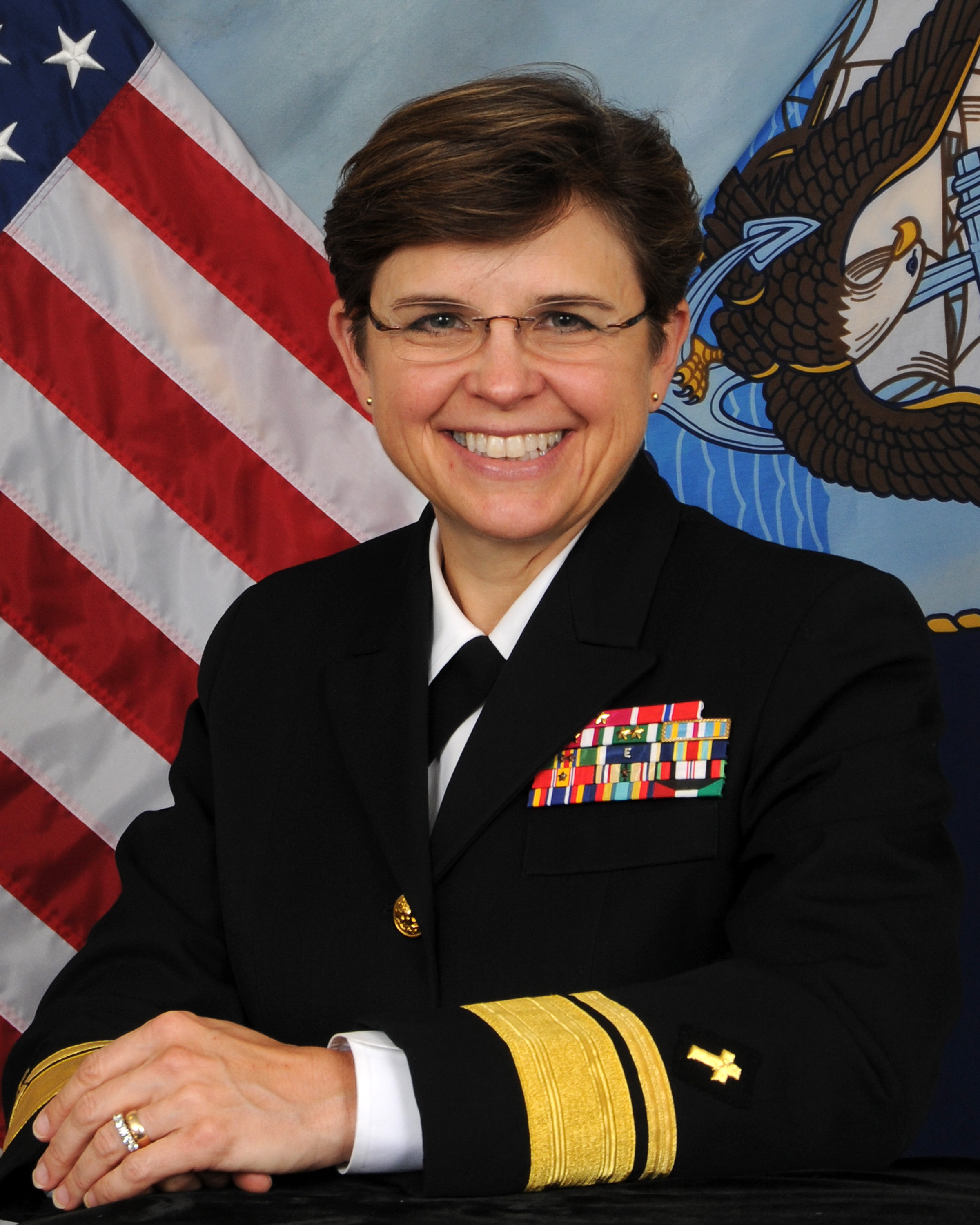 RADM Margaret G. Kibben, Chief of Navy Chaplains